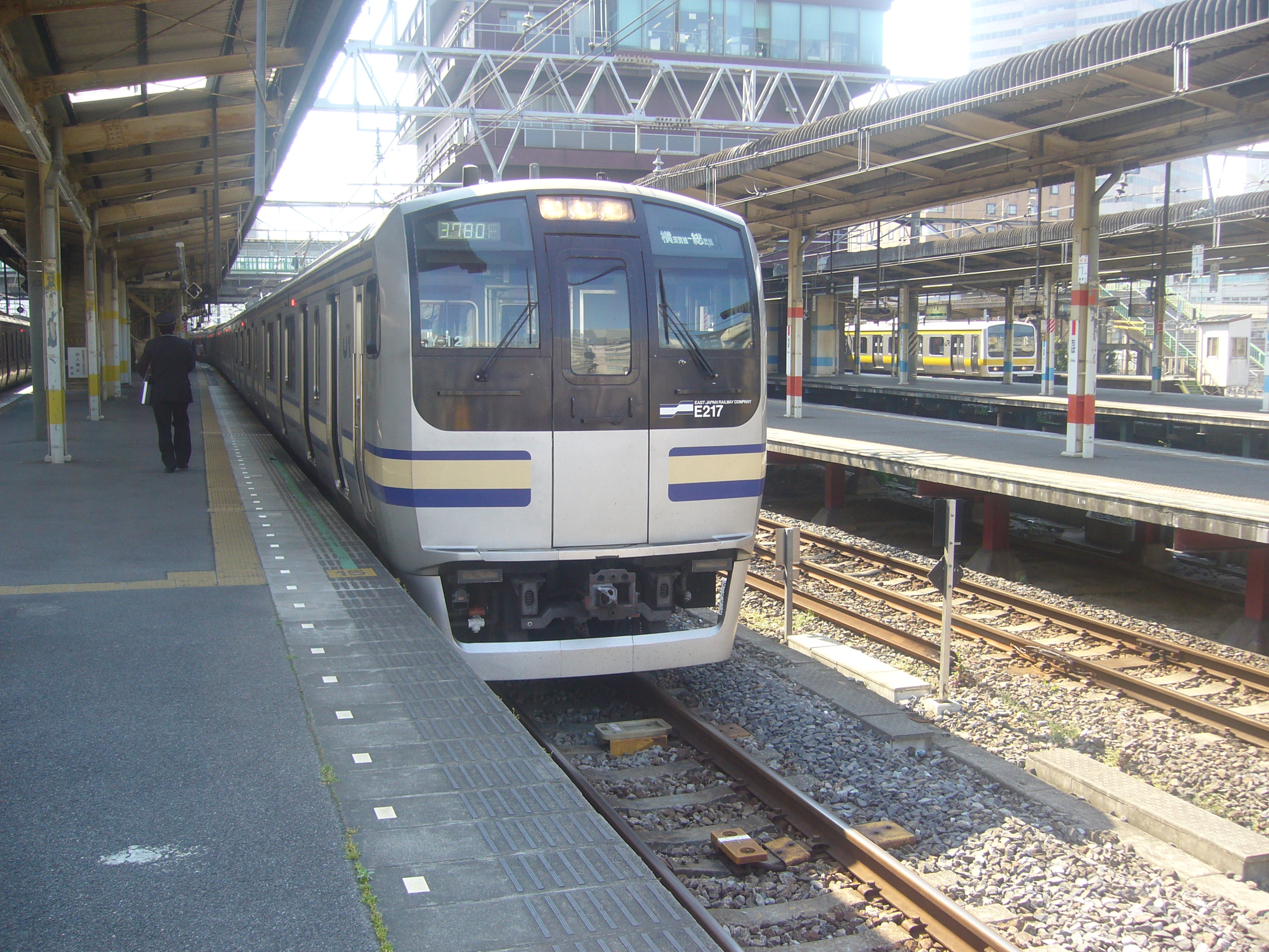 E217 series trains halting at Chiba Station.